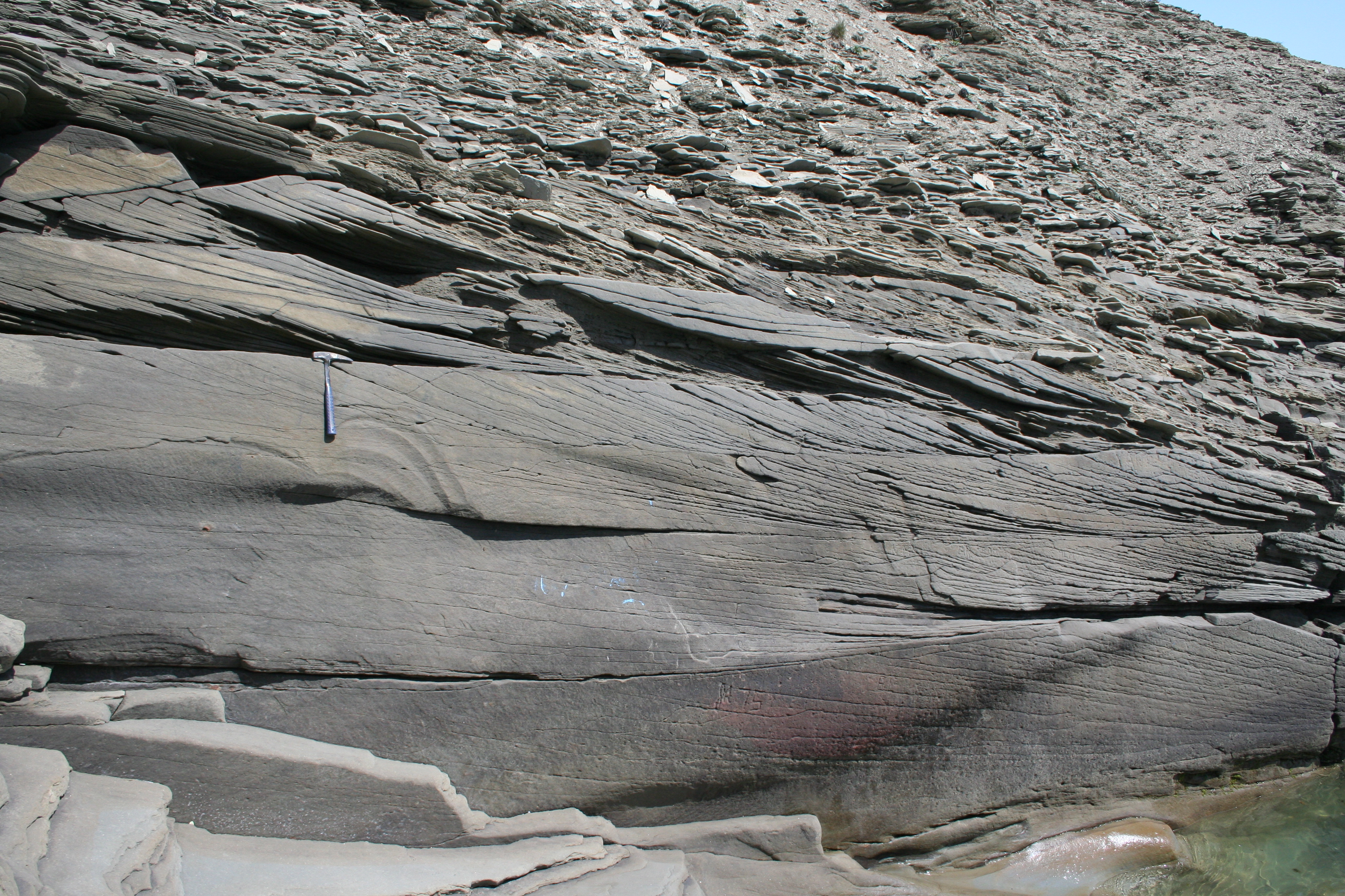 Tabular cross-bedding in the South Bar Formation (Pennsylvanian), Sydney Basin, Nova Scotia. Paleoflow direction was from left to right.